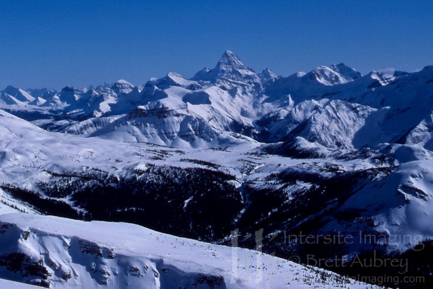 Mt. Assiniboine area from Banff Sunshine Village Ski Resort showing just how much higher it is compared to surrounding peaks.